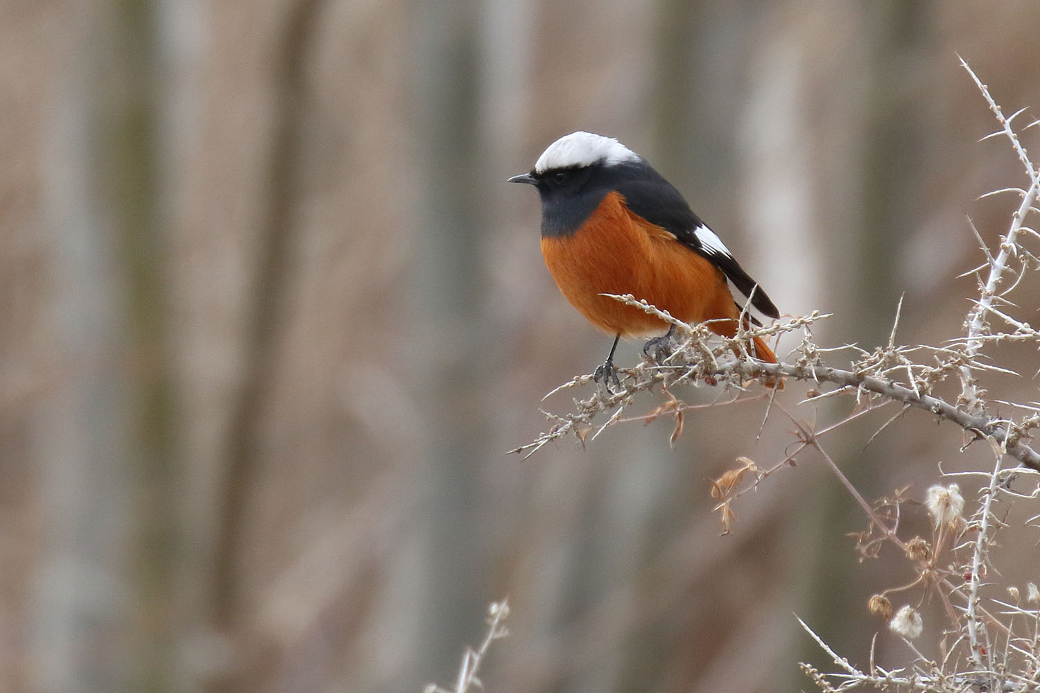 Güldenstädt's redstart (Phoenicurus erythrogastrus) Hemis National Park Ladakh (India)